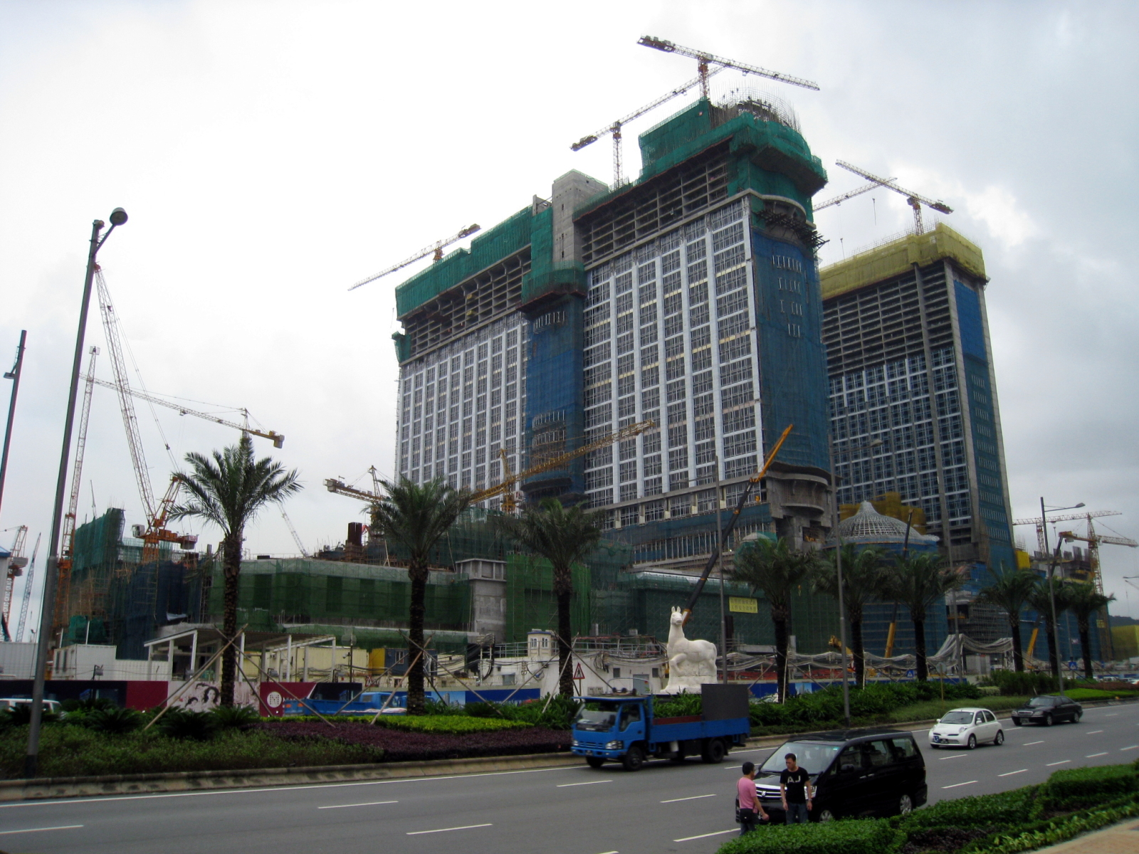 The Shangri-La Hotels & Resorts Macau 香格裡拉酒店 (澳門)